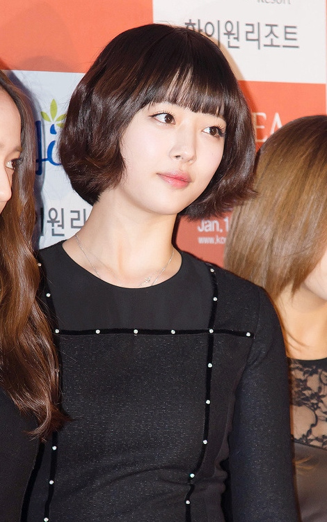 Sulli at the Seoul Music Awards Red Carpet on January 31, 2013.